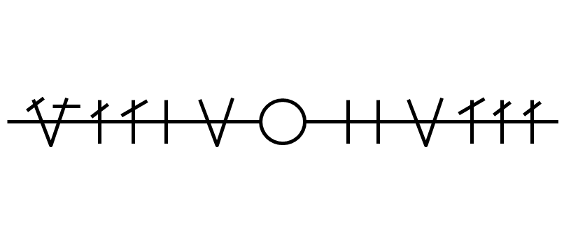 Example of scoring for the south German card game of Gaigel